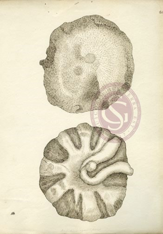 Benett, Etheldred. 1816. Sketches of fossil Alyconia. The Geological Society of London.